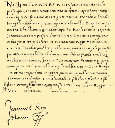 The Peace of Várad (Oradea) in 1538